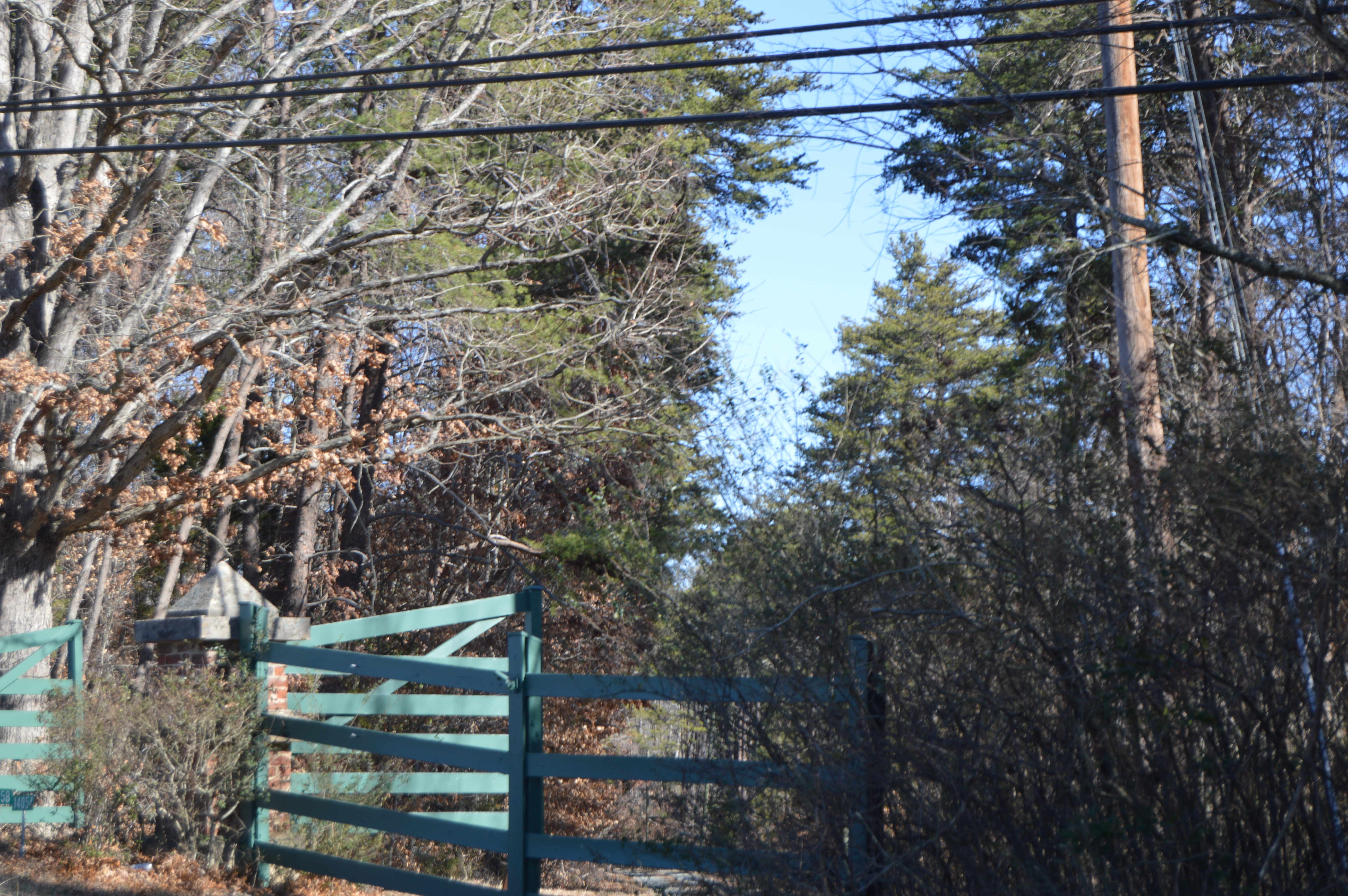 Entrance to the Glen Burnie property, located on U.S. Route 15 north of Palmyra in Fluvanna County, Virginia, United States. The property is listed on the National Register of Historic Places.